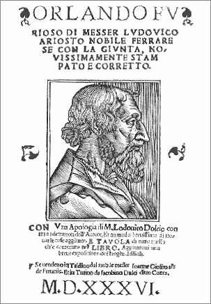 Cover of an edition of Orlando furioso by Ludovico Ariosto, Trino/Turin 1536 [1]